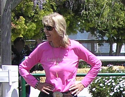 Horse breeder and Cowgirl Hall of Fame member Sheila Varian. Photo taken April 2010 at Varian Arabians